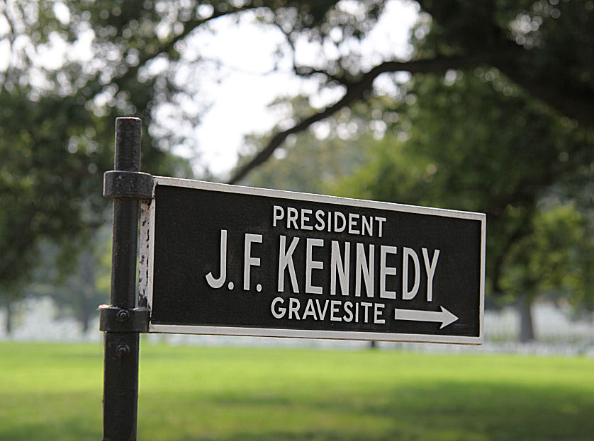 Signage at corner of McClellan Avenue and Eisenhower Drive in Arlington National Cemetery in Arlington, Virginia, in the United States. The sign points to the grave site of President John F. Kennedy.